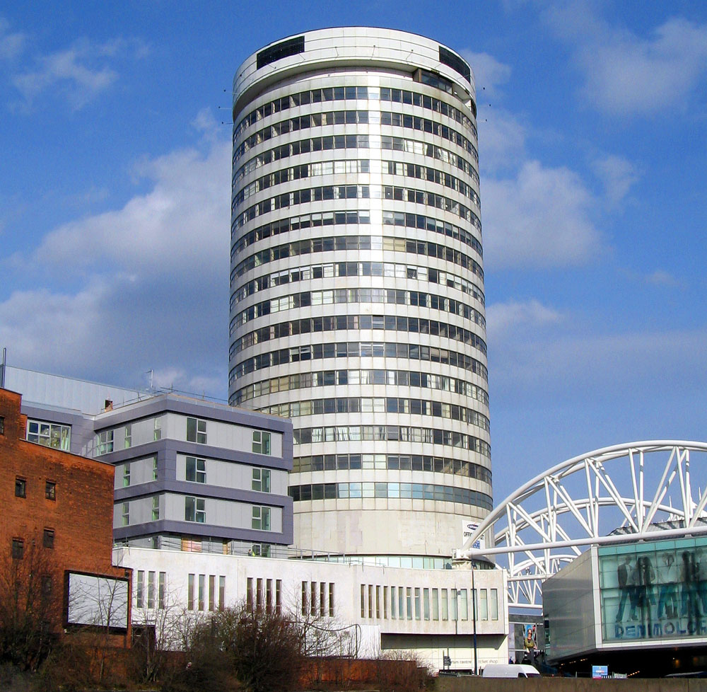 The Rotunda in central Birmingham, England. One of the city's most well-known buildings. Photo by G-Man March 2005 This work has been released into the public domain by its author, G-Man. This applies worldwide. In some countries this may not be legally possible; if so: G-Man grants anyone the right to use this work for any purpose, without any conditions, unless such conditions are required by law. Category:Images of England